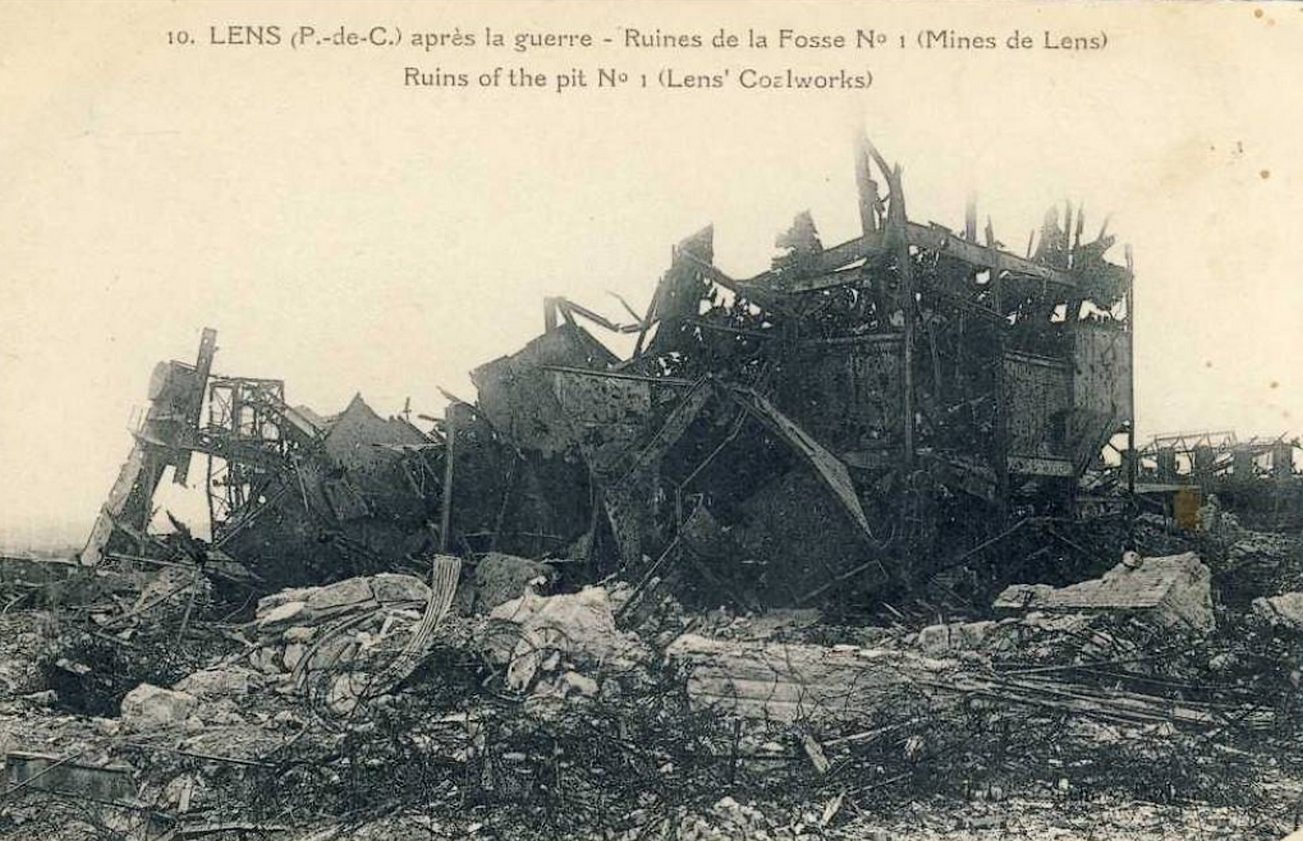 Coalpit n° 1, Compagnie des mines de Lens, Lens, Pas-de-Calais, France.